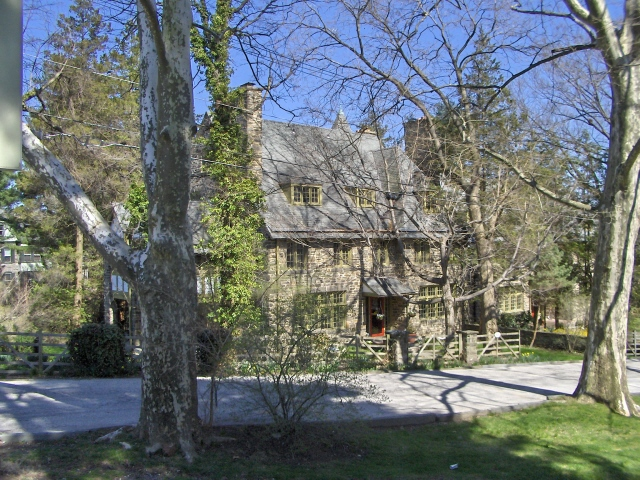 Dr. George Woodward Residences, 300-04 West Willow Grove Avenue, Chestnut Hill, Philadelphia, Pennsylvania (1913), Durhing, Okie & Ziegler, architects.